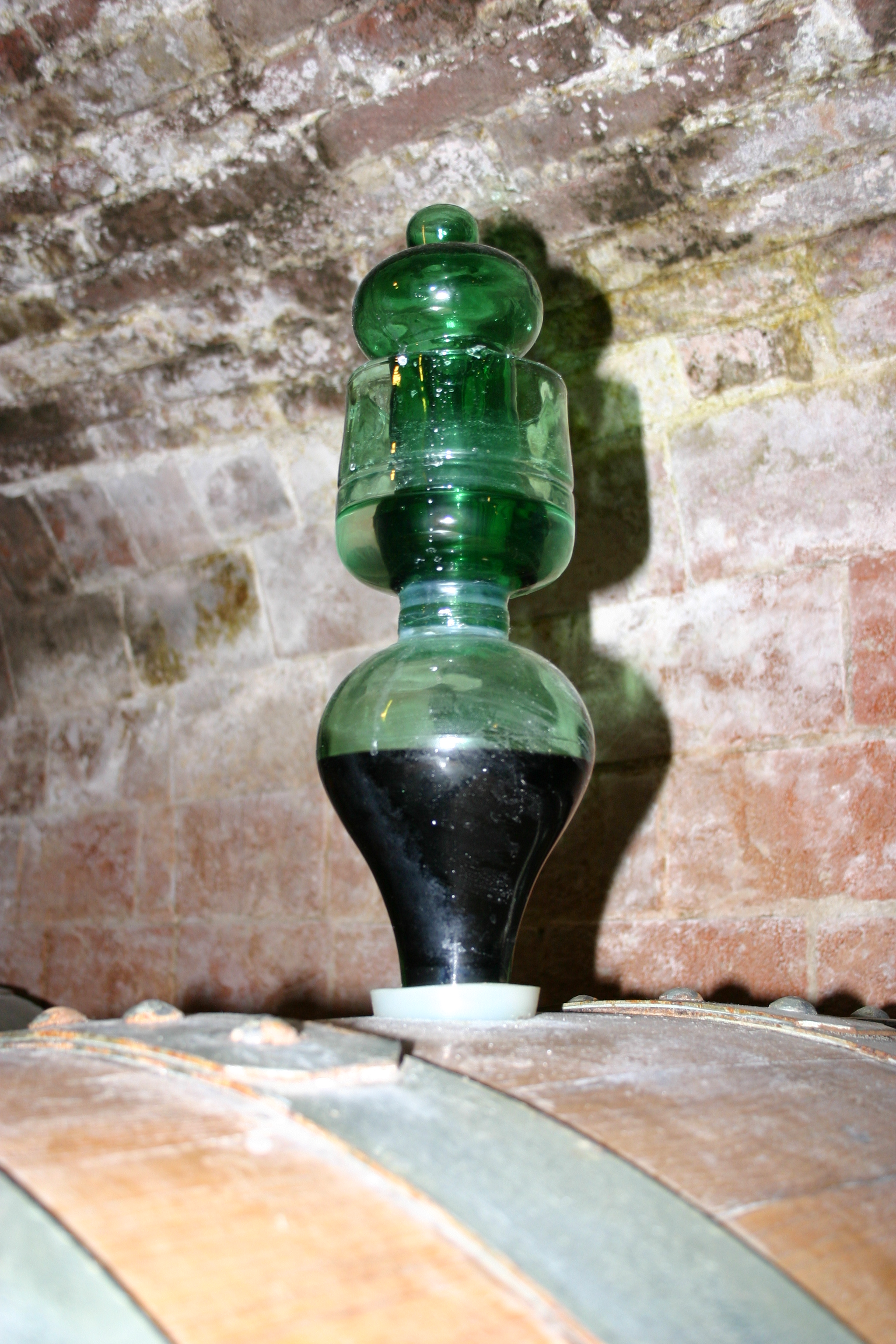 Fermentation lock for wine barrel - Montepulciano (Italy) - Barrel - Wine cellar - Winery